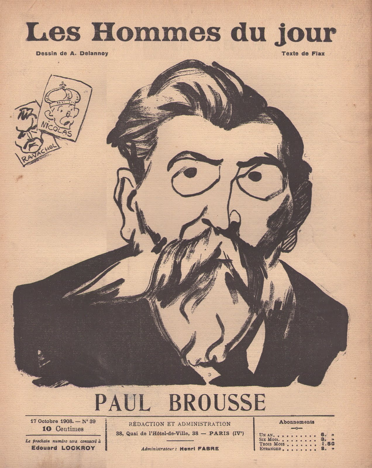 Front cover of an anarchist journal "Hommes du Jour", edited by Victor Méric (1876-1933) and illustrated by Aristide Delannoy (1874-1911).